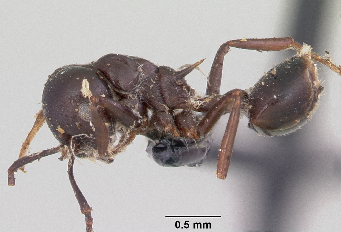 Profile view of ant Crematogaster ensifera specimen casent0101631.